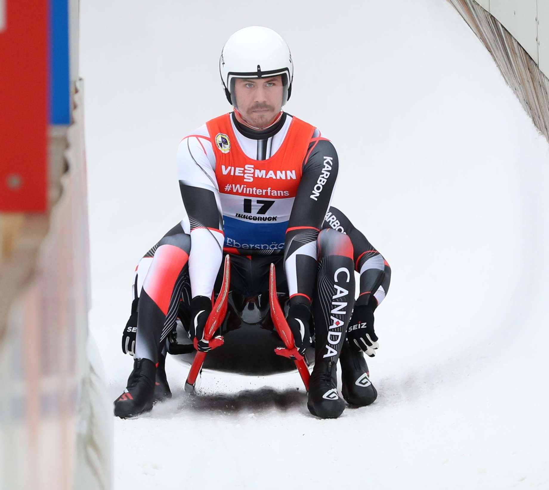 Doubles World Cup race at the 2018/19 Luge World Cup in Innsbruck-Igls